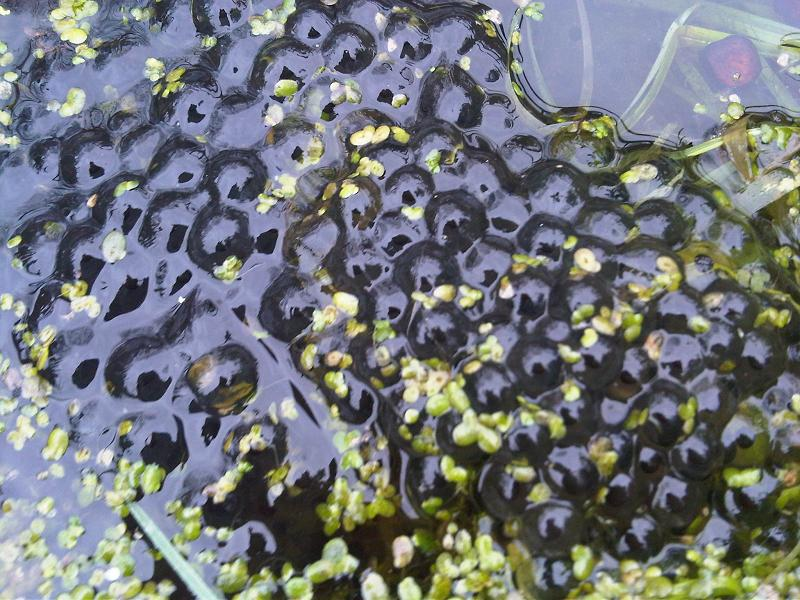 European Common Frog or European Common Brown Frog eggs in England.